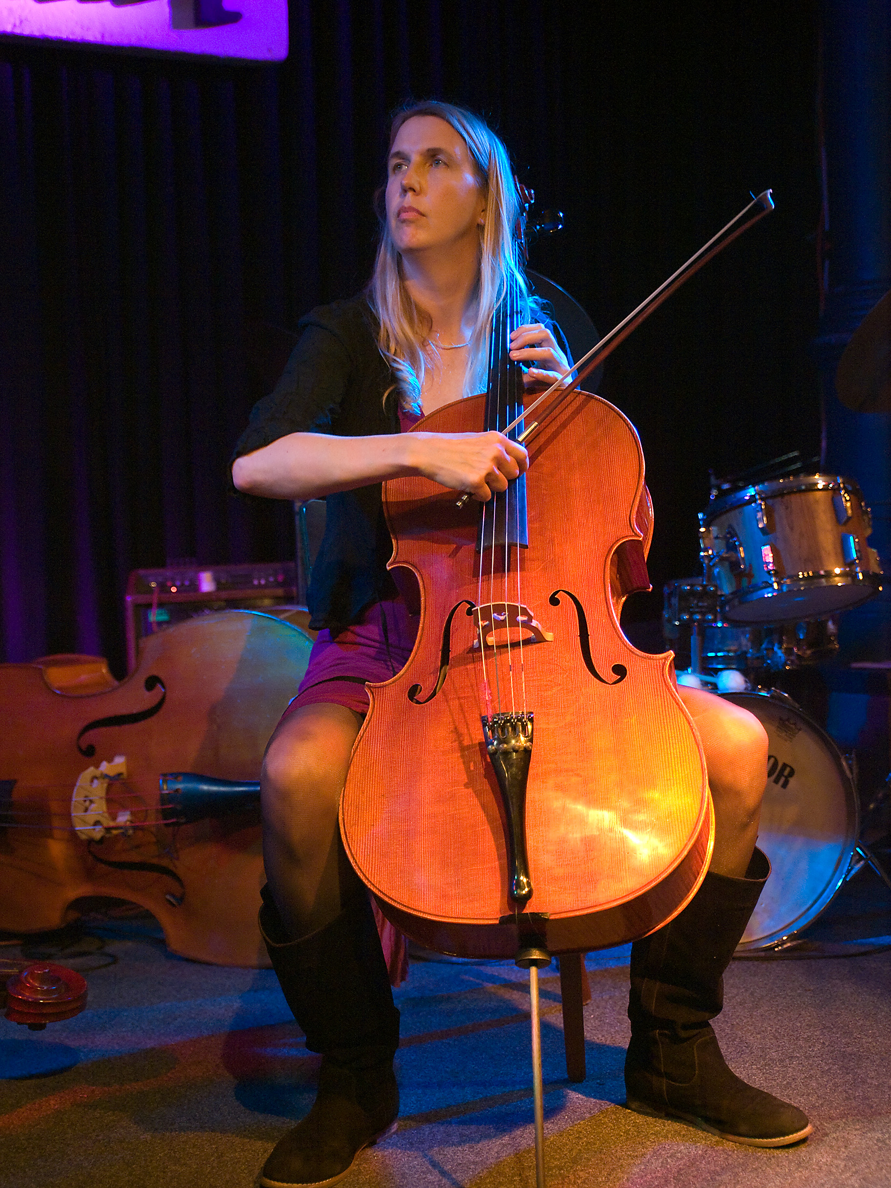 Johanna Varner, Jazz cellist; Picture taken in Jazz Club Unterfahrt, Munich/Bavaria